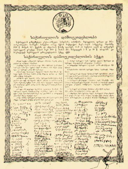 Act of the Independence of Georgia